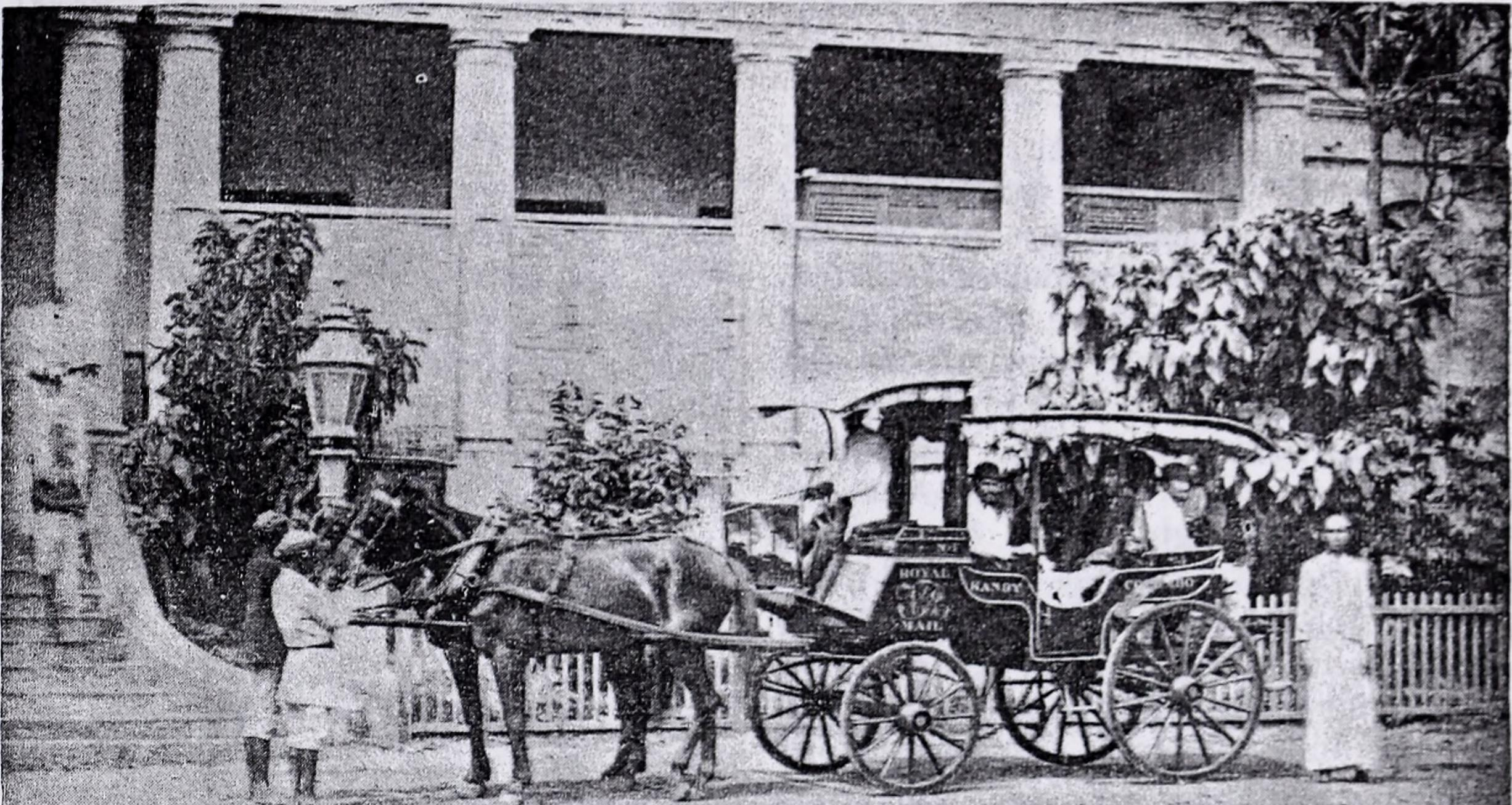 Title: The Keim and allied families in America and Europe Year: 1899 (1890s) Authors: Keim, De B. Randolph (De Benneville Randolph), 1841-1914. cn Subjects: Keim family (Johannes Keim, d. 1703) Publisher: Harrisburg, Pa. : DeB. Randolph Keim Text Appearing Before Image: THE KEIM AND ALLIED FAMILIES. 559 Text Appearing After Image: The Colombo-Kandy (Ceylon) Royal Mail. Traveled in this conveyance between these points September, 1865. The grooms with the horses trottedtheir sides to the relay, being succeeded there by other animals and their grooms. in the Shat el Arab. The Mahommed-ans assign it to Arabia. Instead of heaping obloquy uponthe first recorded pair as we do in thewest, great honors are bestowed upontheir memory in the east. The Rabbis assert that Adam wastwice married which is the reason theribs in the male frame are the sameon either side. They have the subject down fineenough to inform us that the name ofMrs. Adam, No. 1, was Lilith or Lilesand that she fell without temptation,therefore from natural causes and didnot involve Adam. She is classed,however with the fallen angels. This foot-print is revered bv fivehundred millions of people, Buddhists.Hindoos and Mahommedans or morethan bow to the holy cross-crownedcalvary. It was the resort of pilgrims fromthe earliest human history. TheSinghalese sa